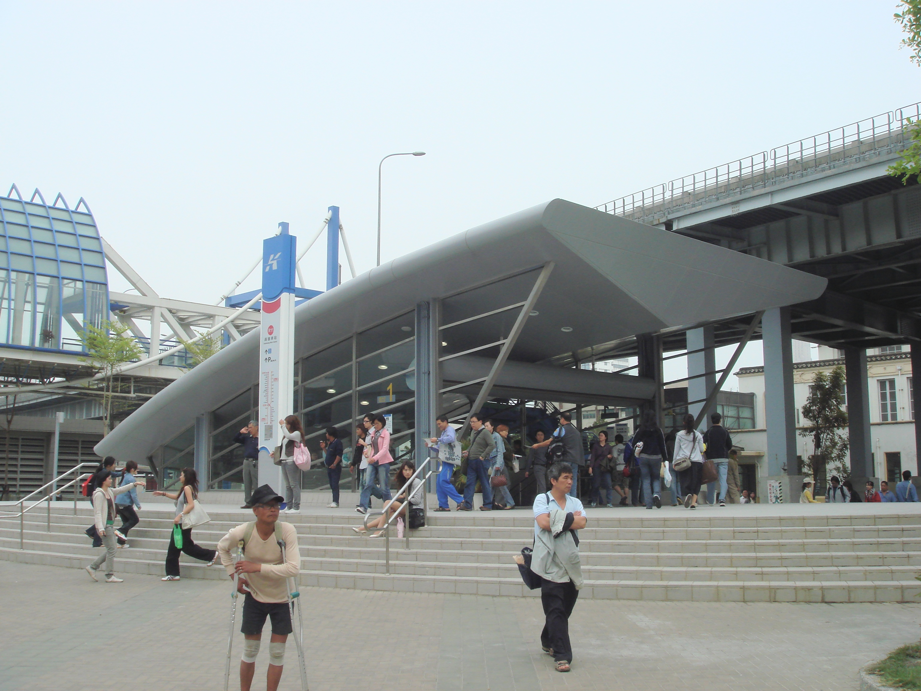 Exit 1, Kaohsiung Main Station, Kaohsiung MRT.